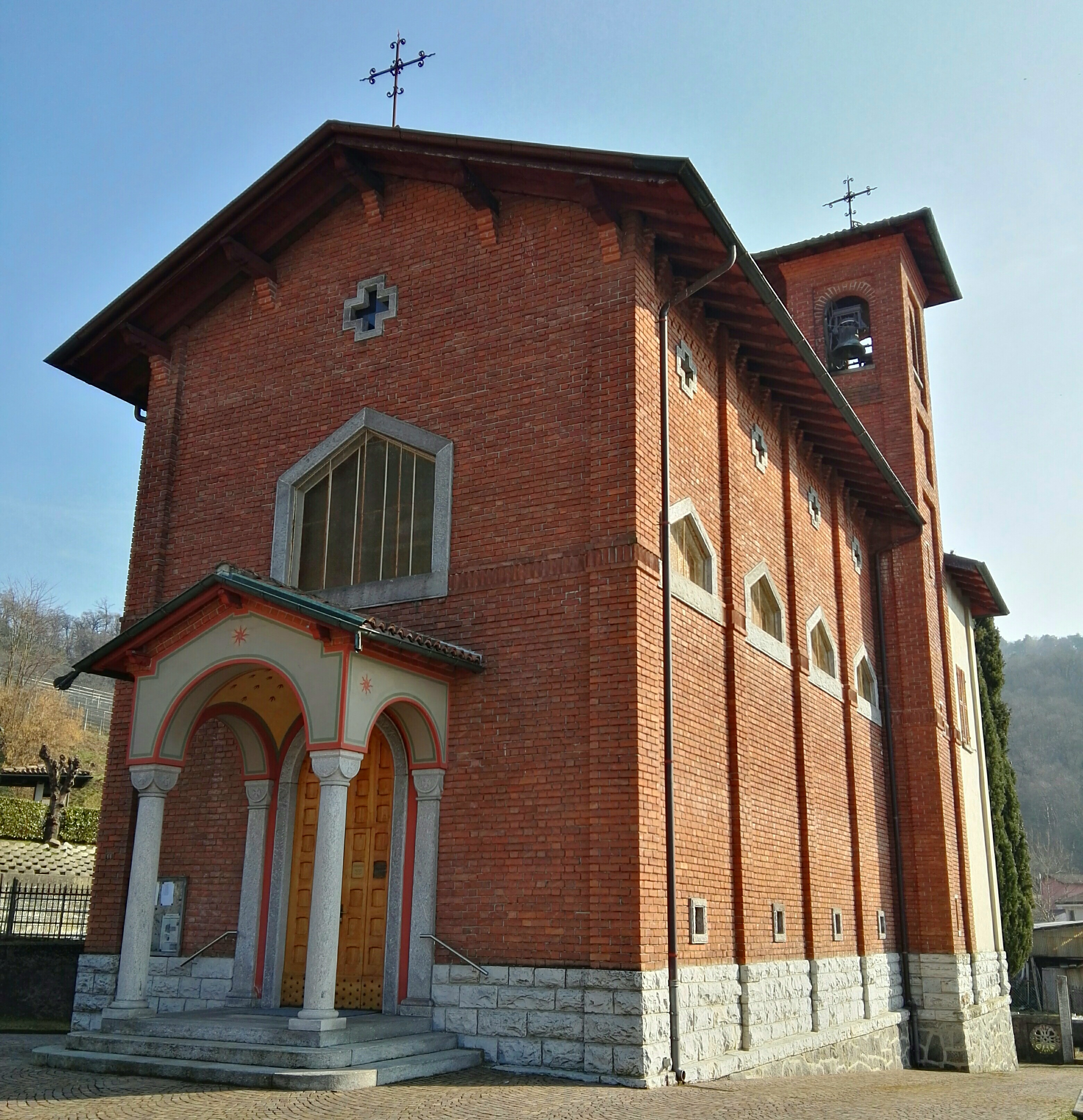 S. Teresa church in Seseglio (Chiasso)